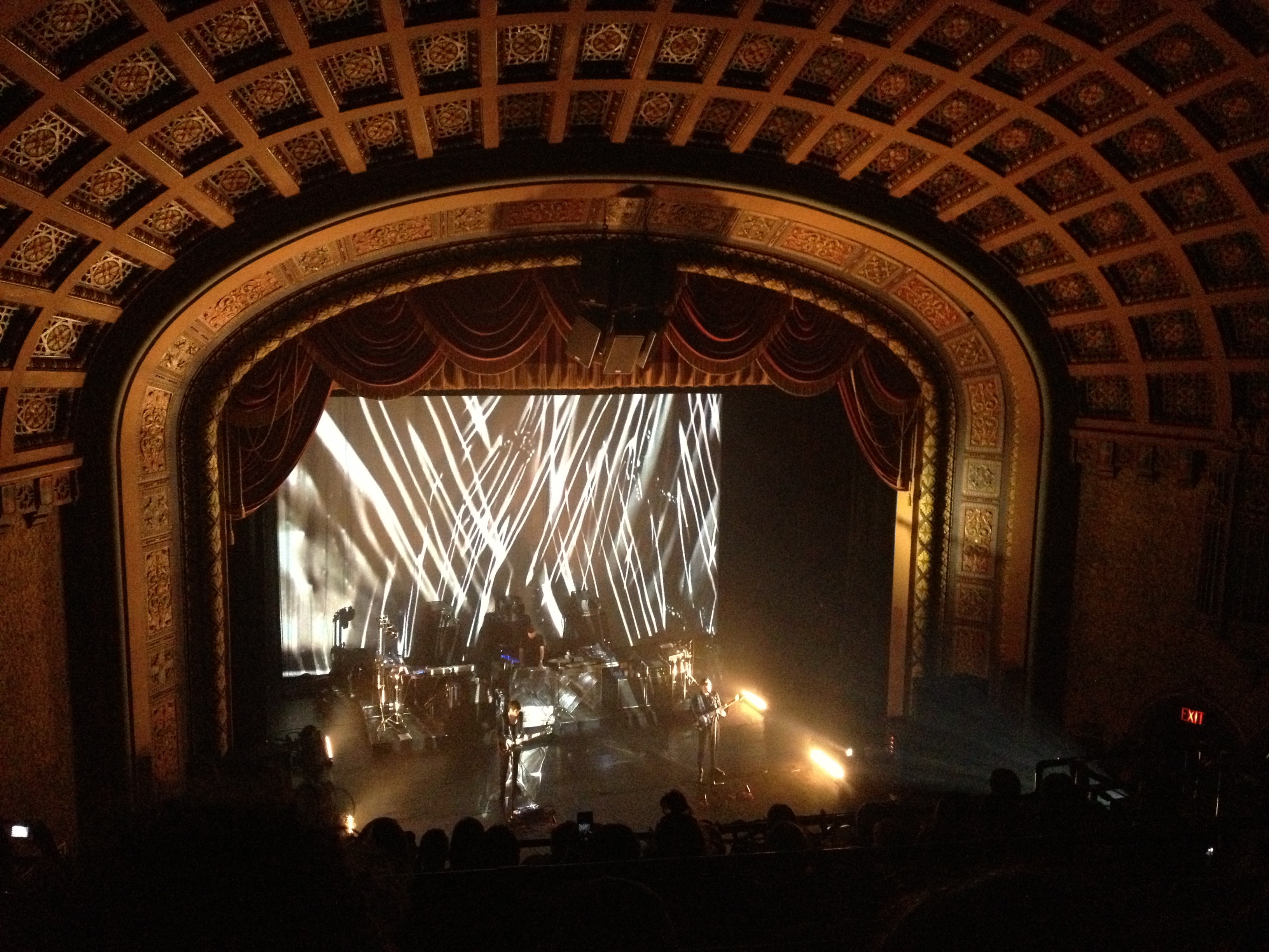 Interior of the Florida Theater, Jacksonville, FL